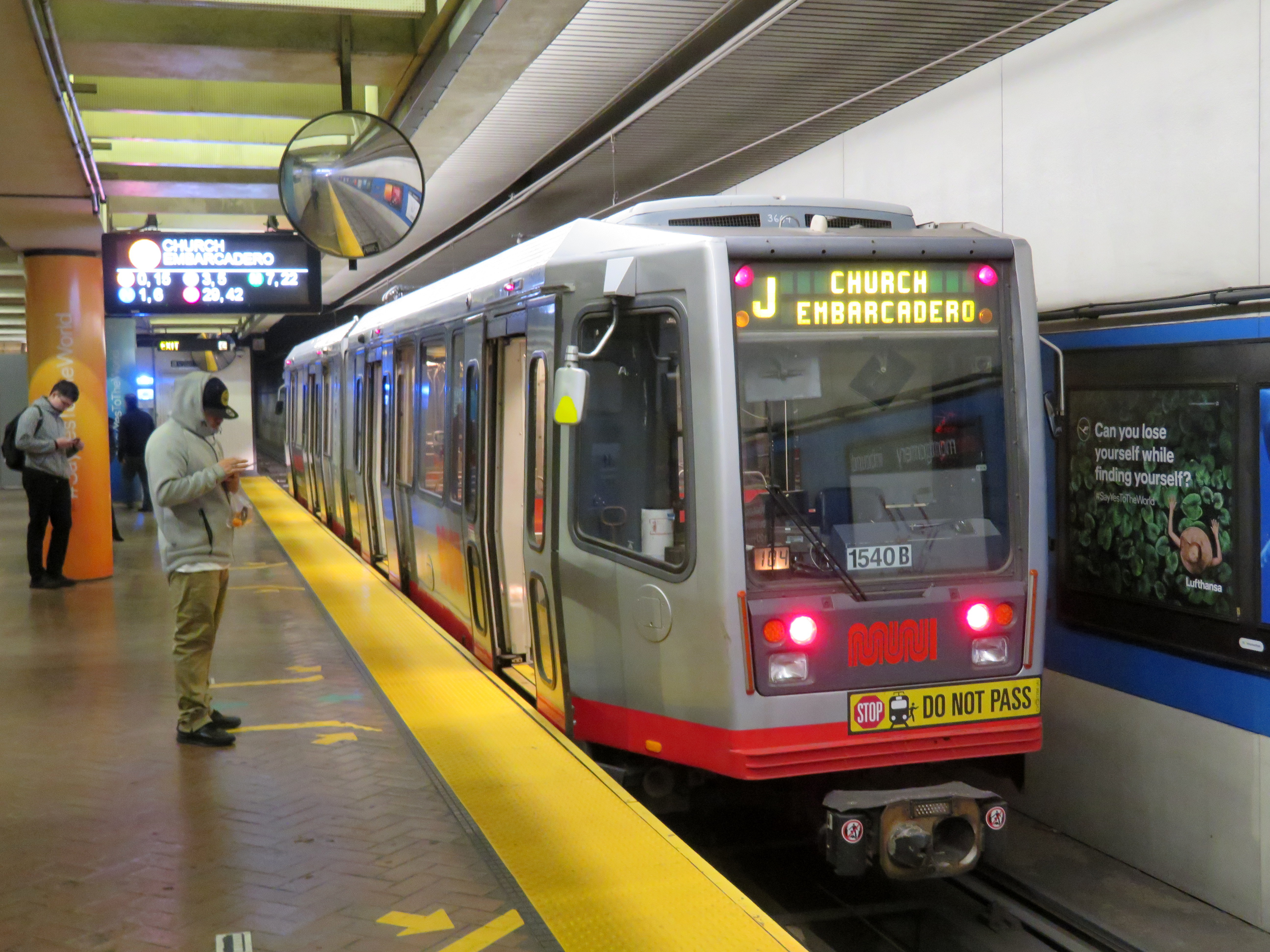 An inbound Muni Metro train at Montgomery station in December 2018